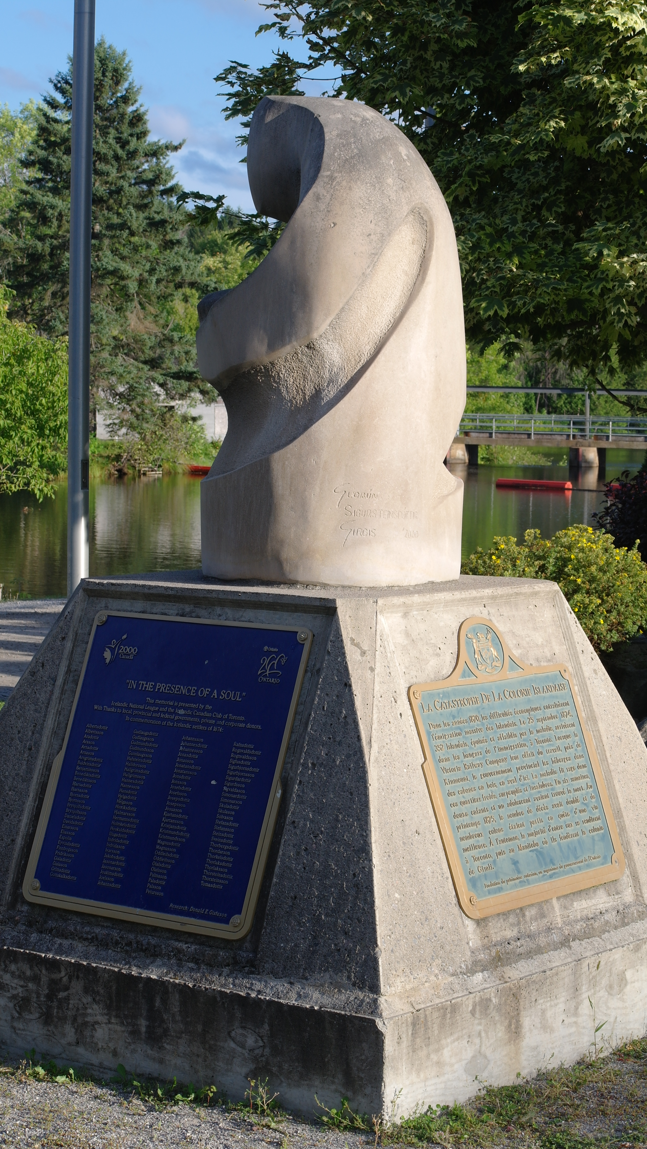 Icelandic Settlement Disaster In the fall of 1874, 350 Icelandic immigrants arrived in Kinmount to help construct the railway. Housed in crude log shanties by the Burnt River, they suffered from hunger and sickness. More than 24 workers died and in the spring the group scattered. The next fall they regrouped in Toronto and travelled west to found the settlement of Gimli, Manitoba.